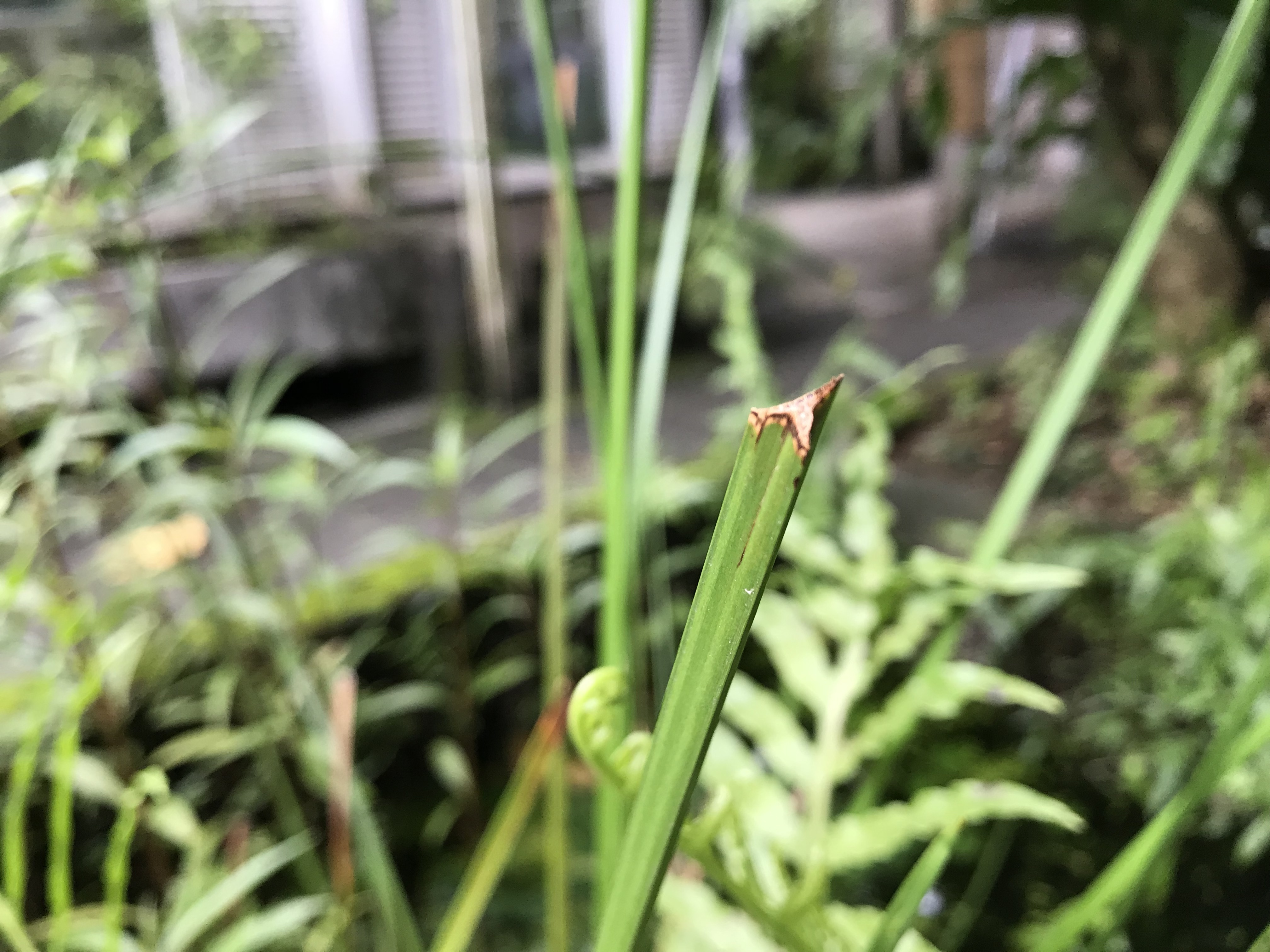 Gonostegia hirta (Bl. ex Hassk.) Miq. (stem)